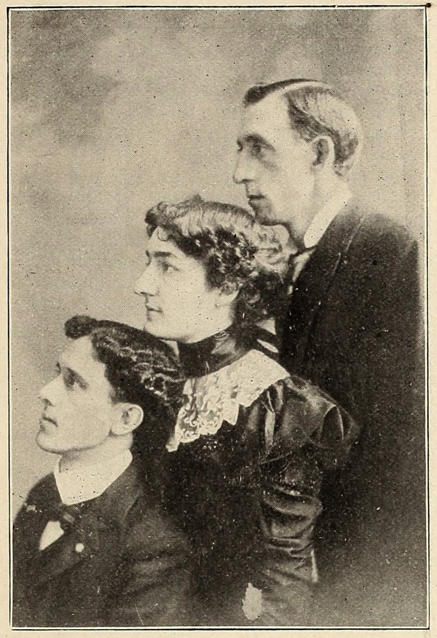 Portrait of the Lyric Trio (aka "Original Lyric Trio") comprised of John C. Havens, Estella Louise Mann, and Will F. Hooley, 1898.